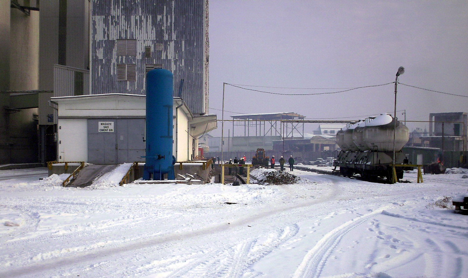 Holcim cement factory Turda